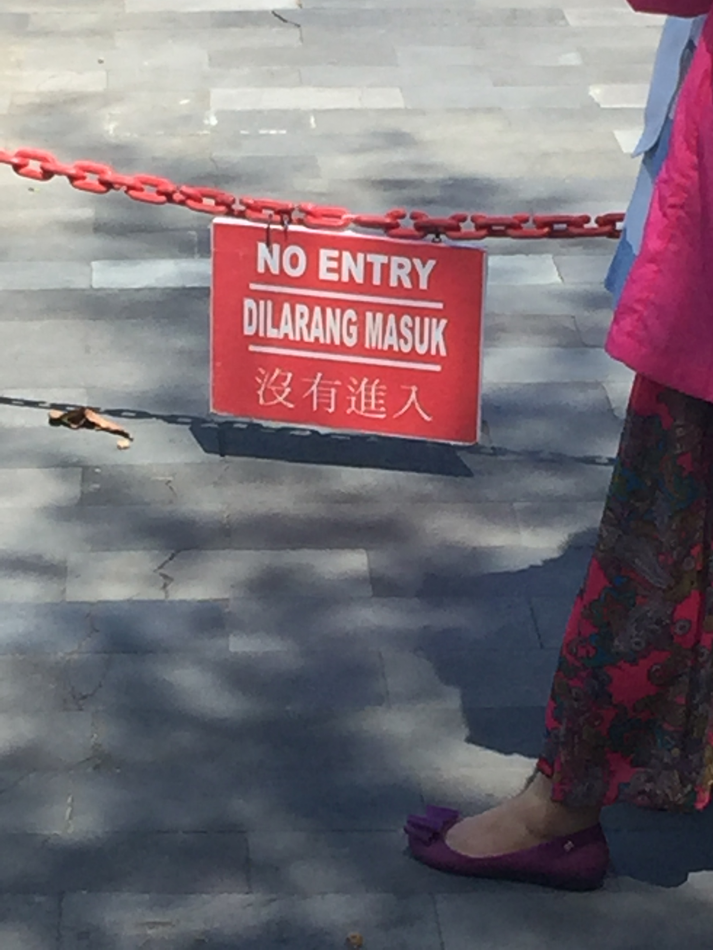 Machine translation from English "no entry" to Traditional Chinese characters "沒有進入", which is a broken Chinese sentence that sounds like either "there does not exist an entry" or "have not entered yet", photographed in Bali, Indonesia.